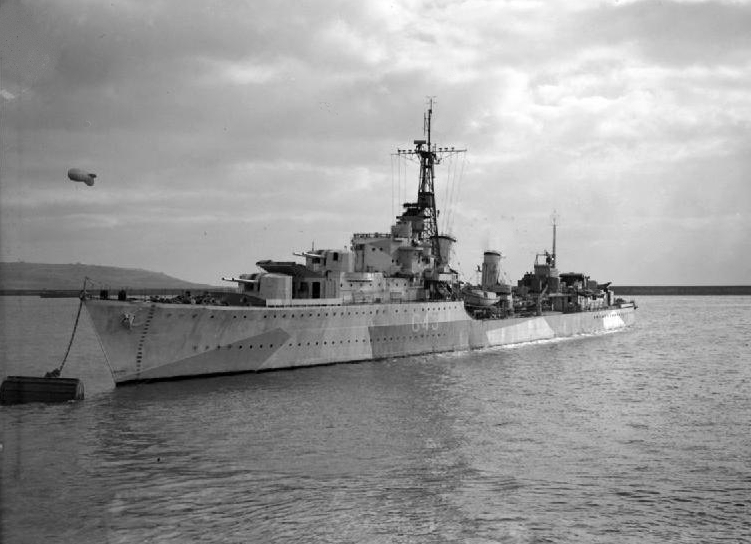 British destroyer HMS Tartar (F43) at a buoy.